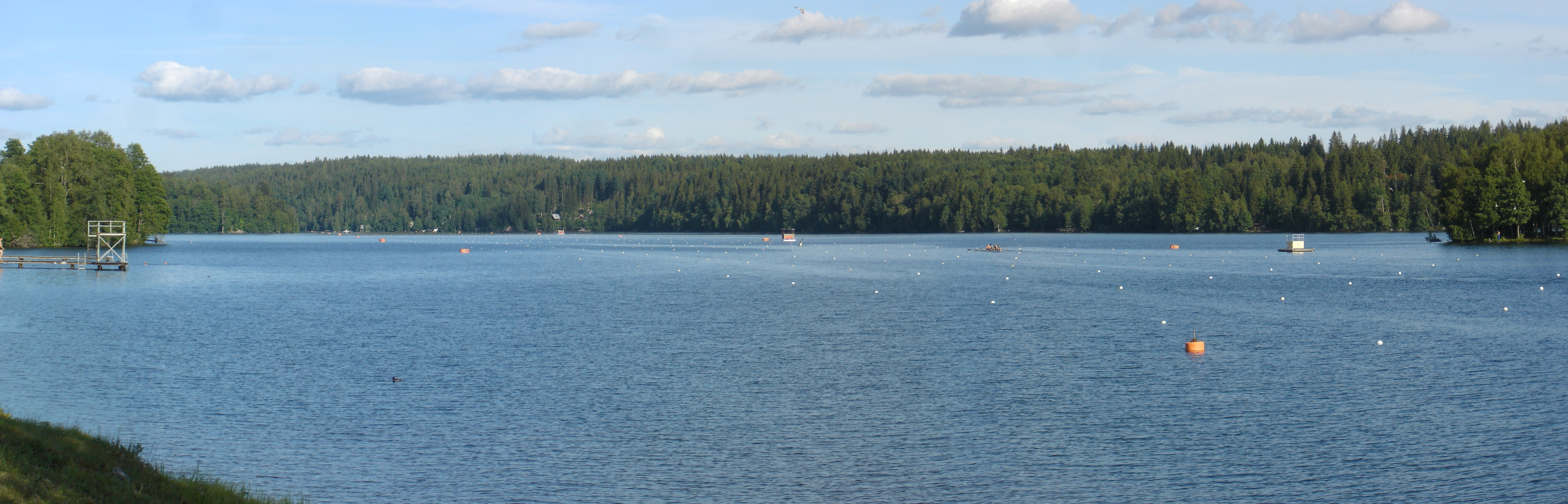 Kaukajärvi rowing stadium